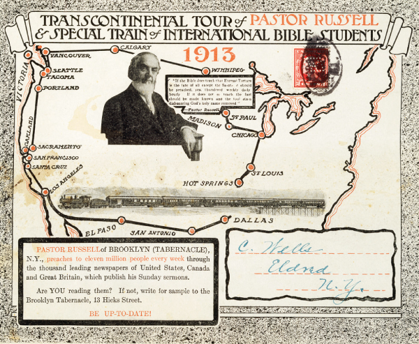 Postcard - Transcontinental Tour of Pastor Russell, June 1913